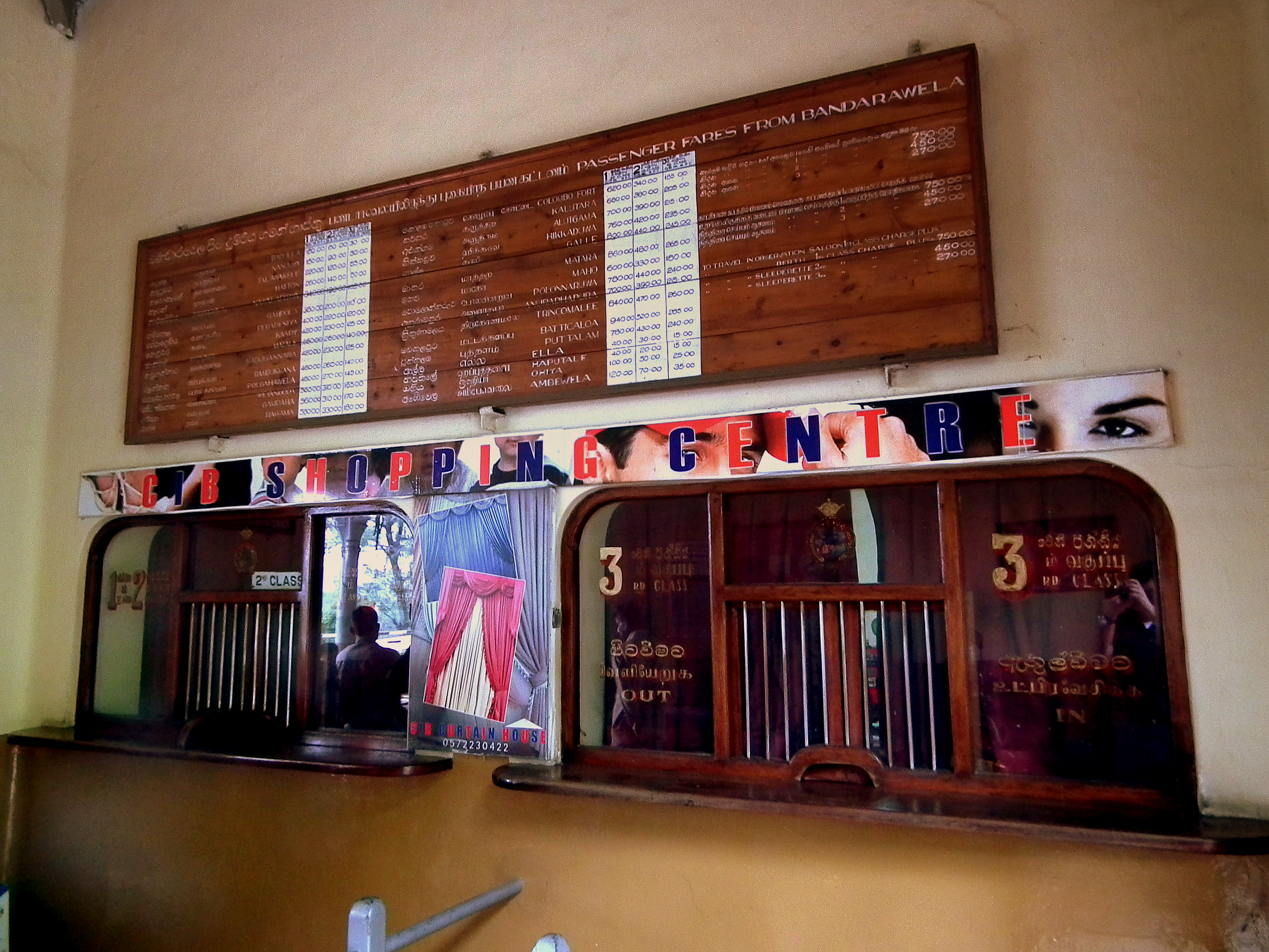 BANDARAWELLA STATION TICKET OFFICE SRI LANKA JUNE 2011